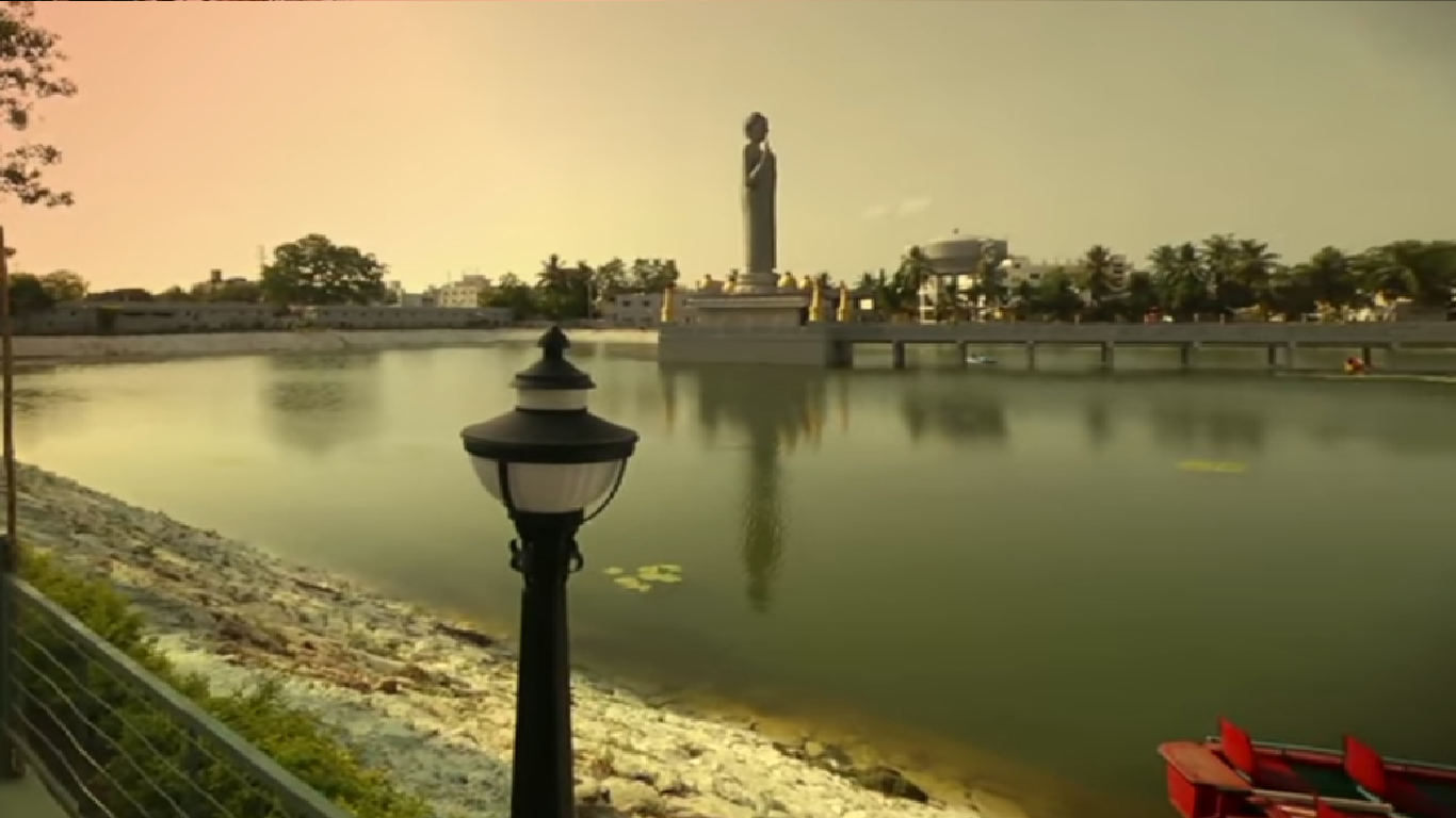 Eluru Buddha Other information Eluru